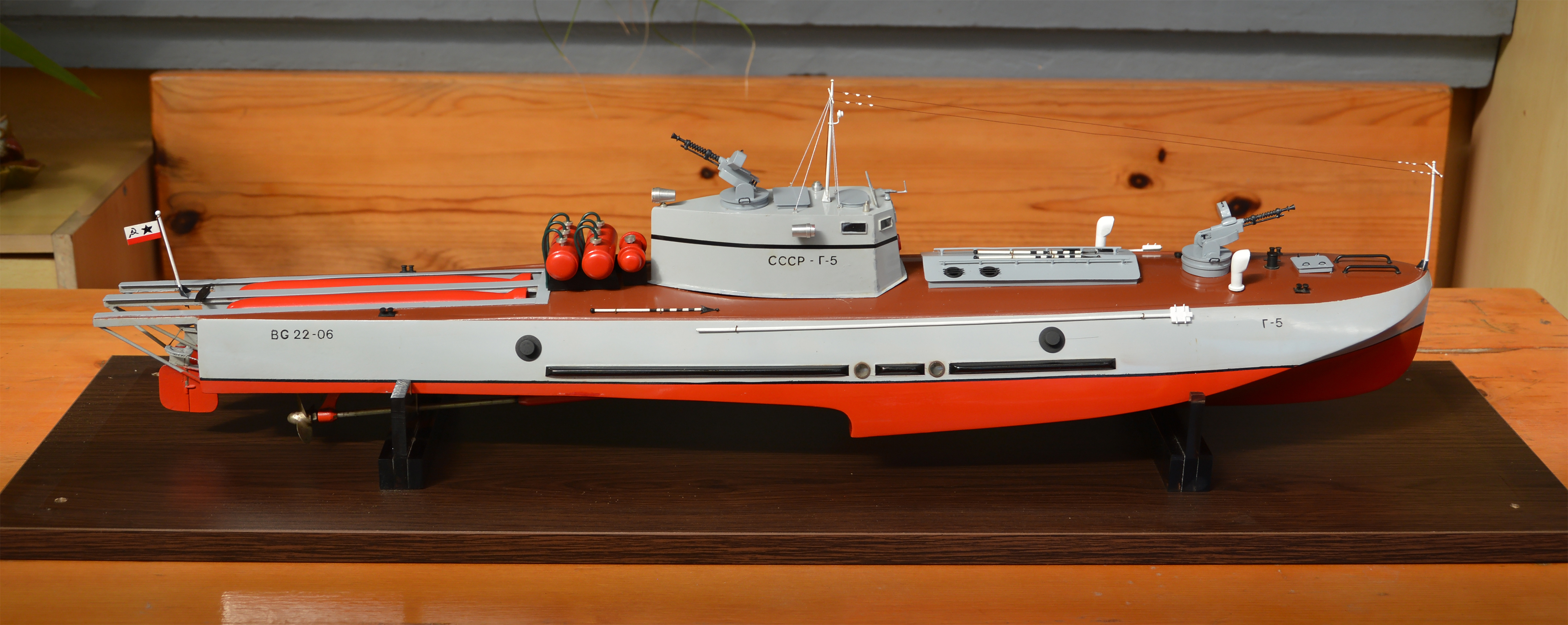 Scale model of Soviet Г-5 class torpedo boat. Built circa 1985 by Hristo Stefanov Boevski.